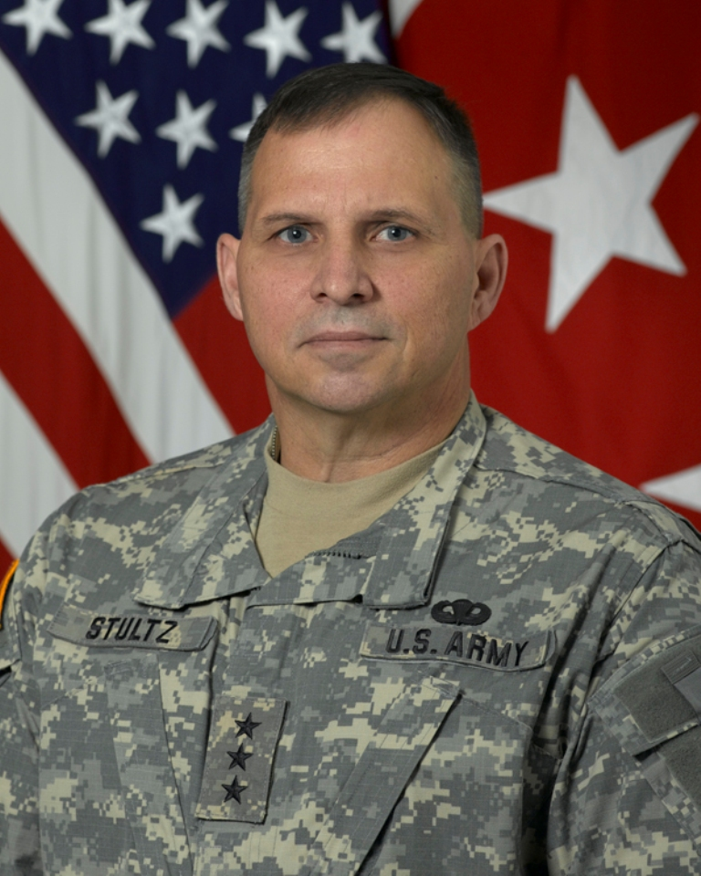 LTG Jack C. Stultz, Jr., Commander of US Army Reserve Command